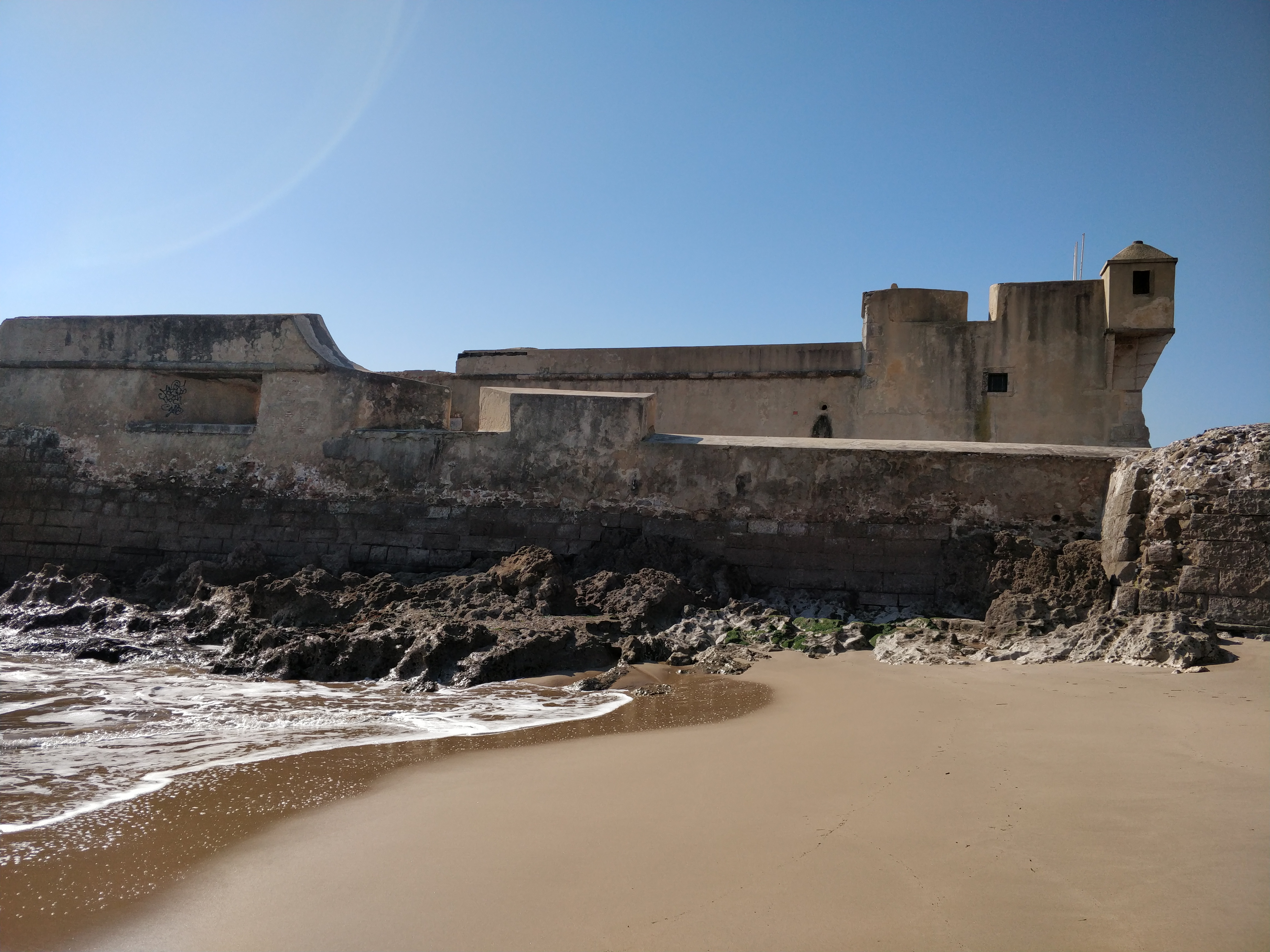 View of the Forte de São Bruno de Caxias on the Tiber estuary near Lisbon